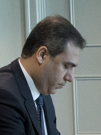 Hakan Fidan at the Pentagon, May 17, 2013. Cropped, from DoD photo by Erin A. Kirk-Cuomo (Released). This file has been extracted from another file: Secretary of Defense Chuck Hagel meets with Turkish Minister of National Defense Ismet Yilmaz and Minister of Foreign Affairs Ahmet Davutoglu at the Pentagon.jpg